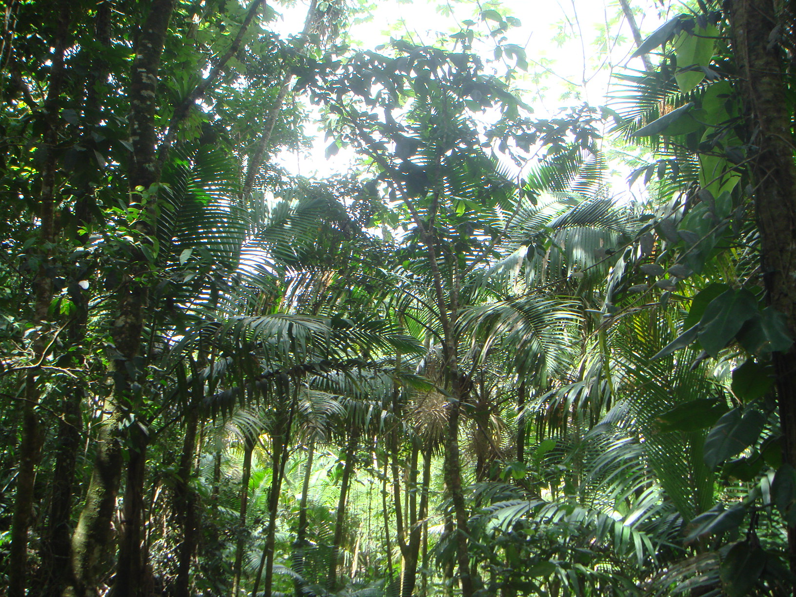 Sierra Palm at El Yunque rainforest, Puerto Rico.